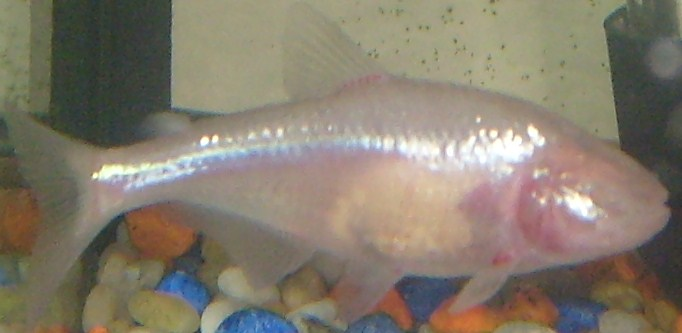 A closeup of our Blind Cave Fish, for the mexican tetra page.